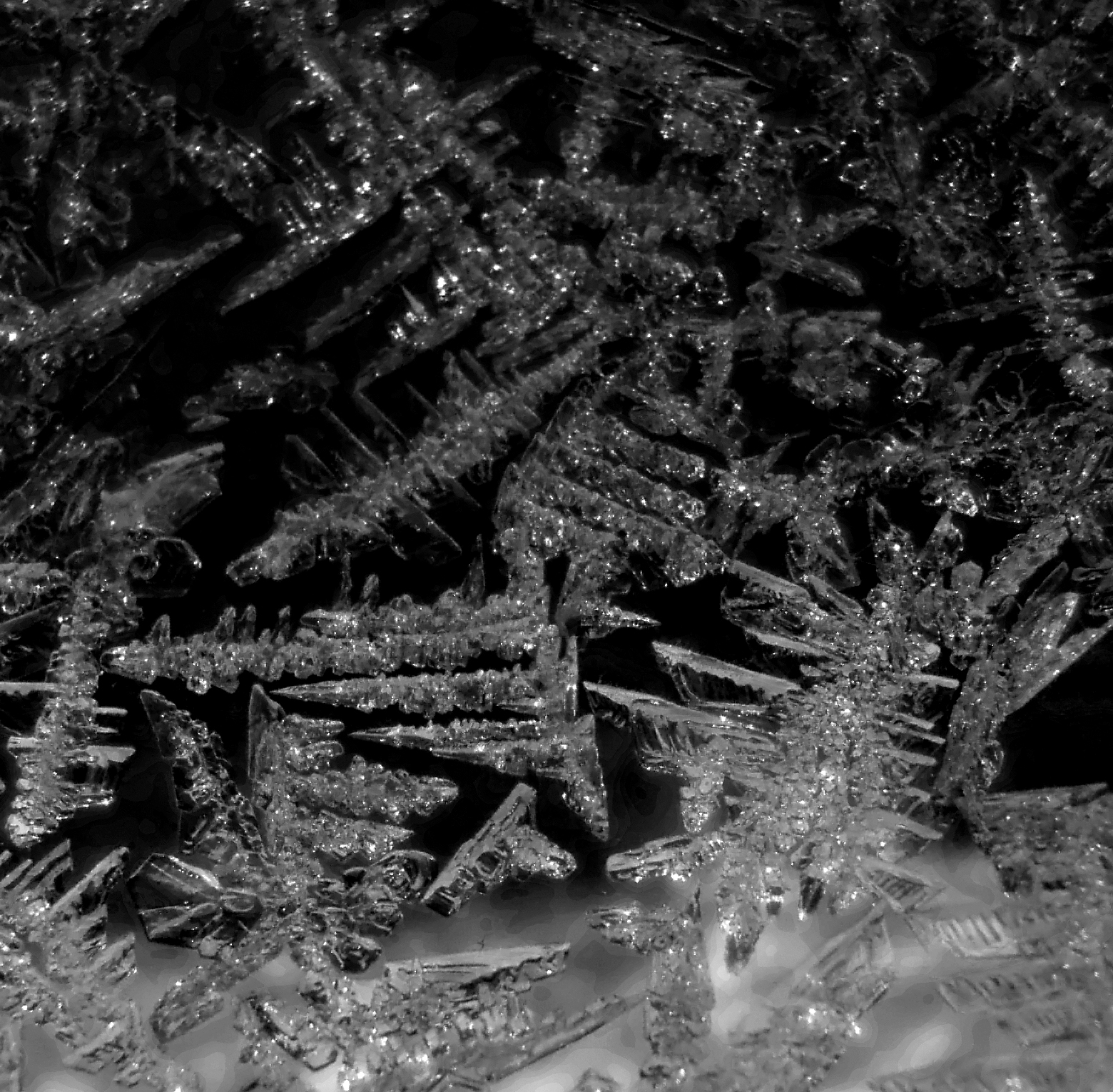 Ice crystals on the box with a cake